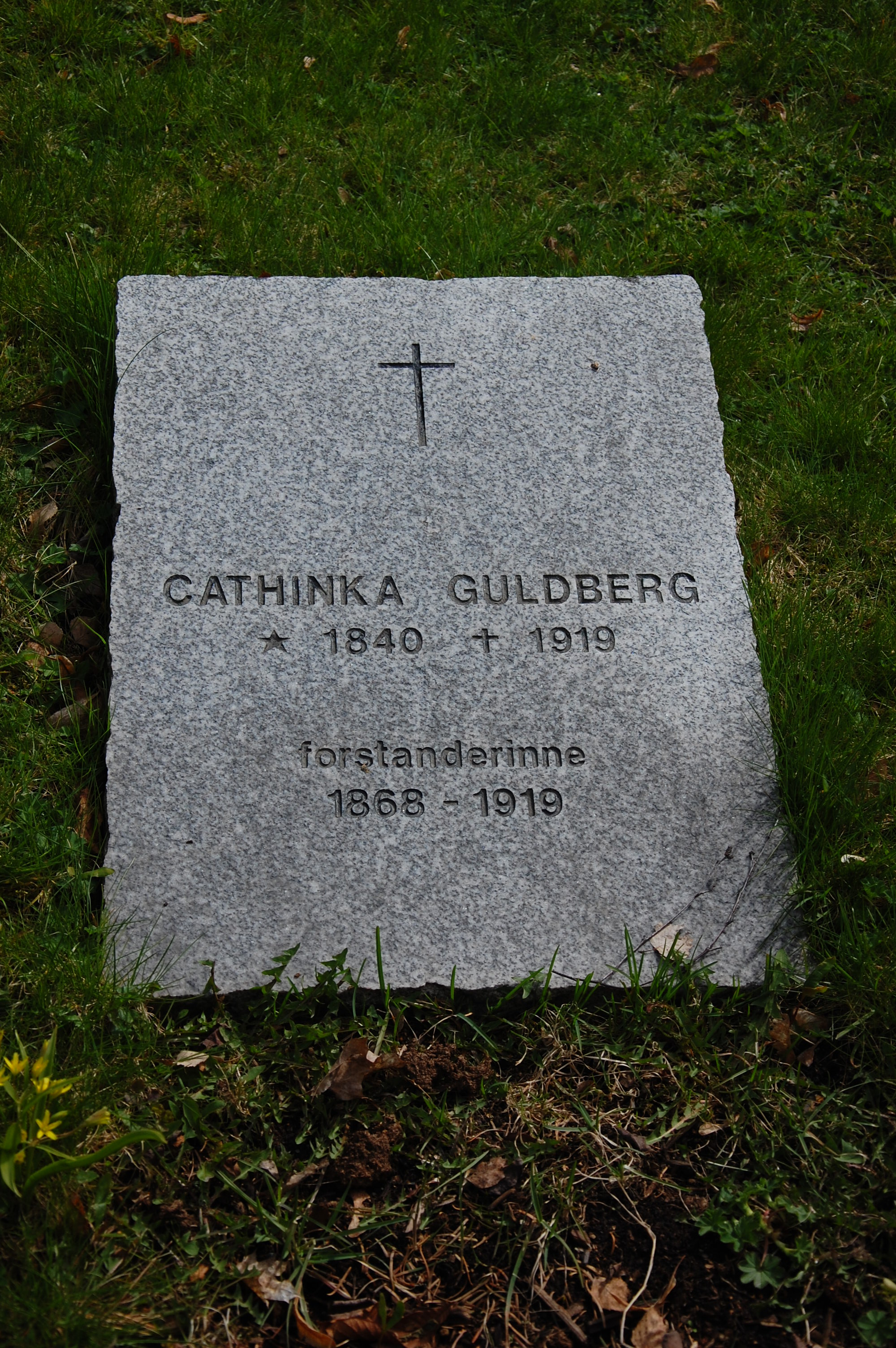 Cathinka Guldberg (1840-1919), Norwegian deaconess. Grave at Nordre gravlund (cemetery) in Oslo, Norway.